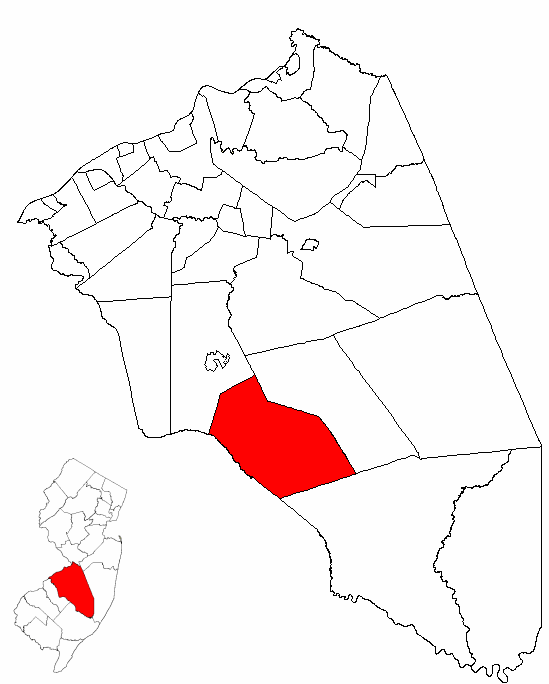 Map of Burlington County highlighting Shamong Township